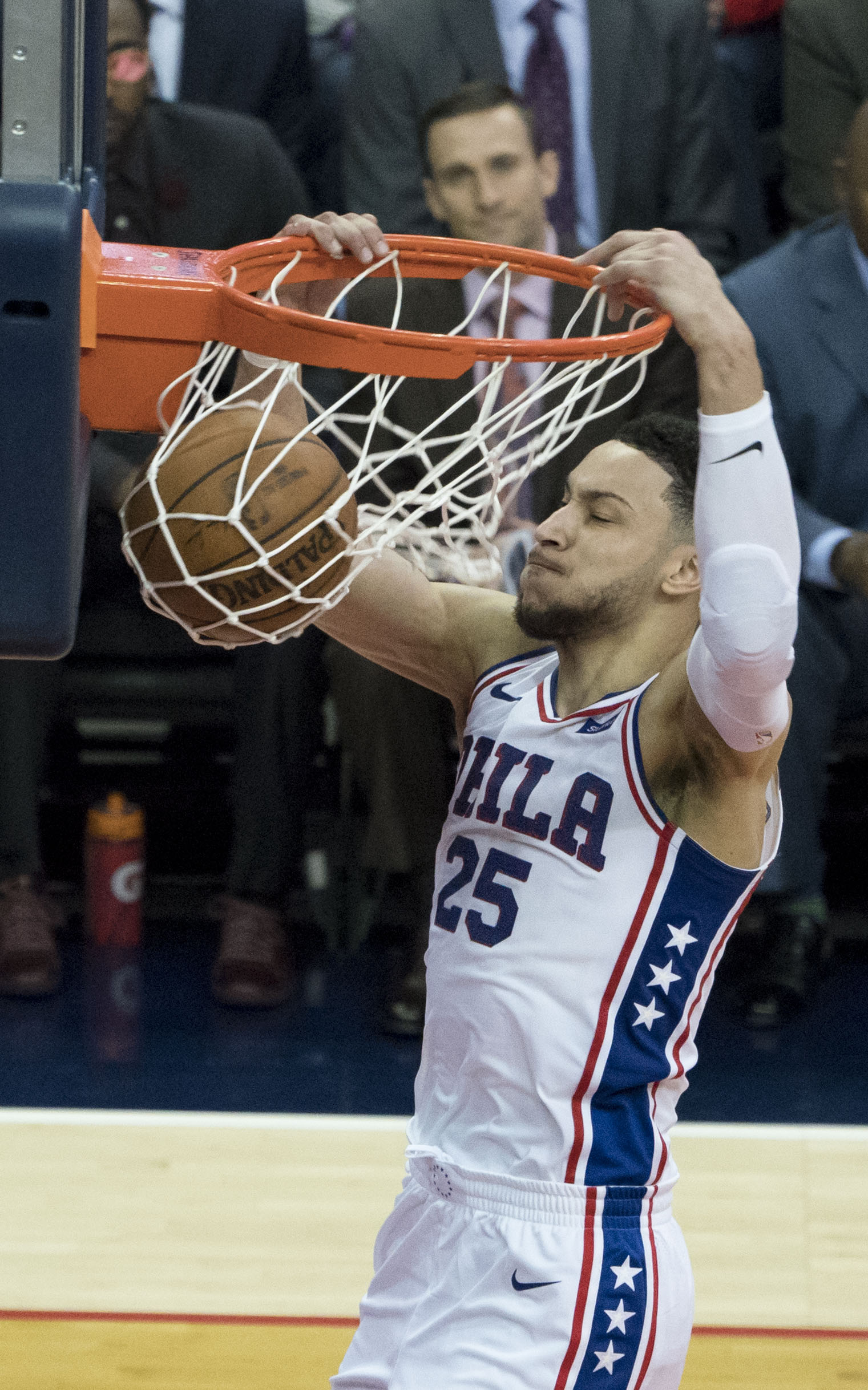 76ers at Wizards 2/25/18